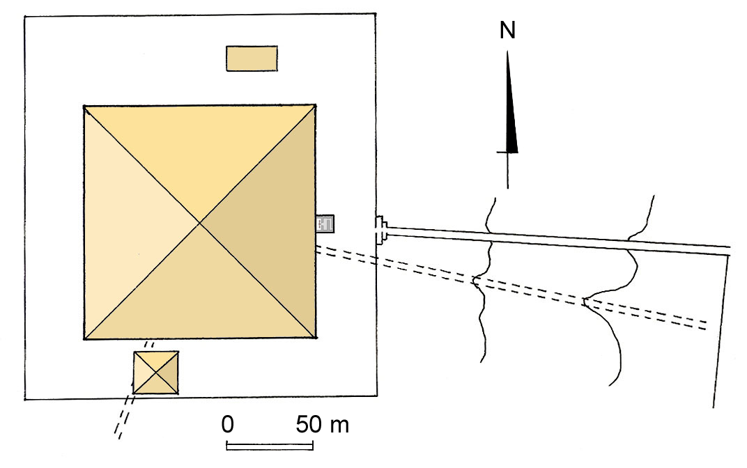 Pyramid Temple of the Meidum pyramid